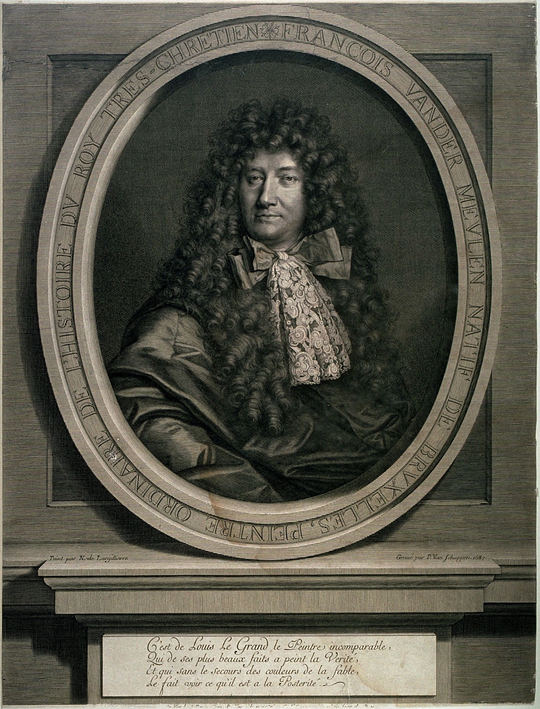 Engraved portrait of the Flemish history painter Adam Frans van der Meulen